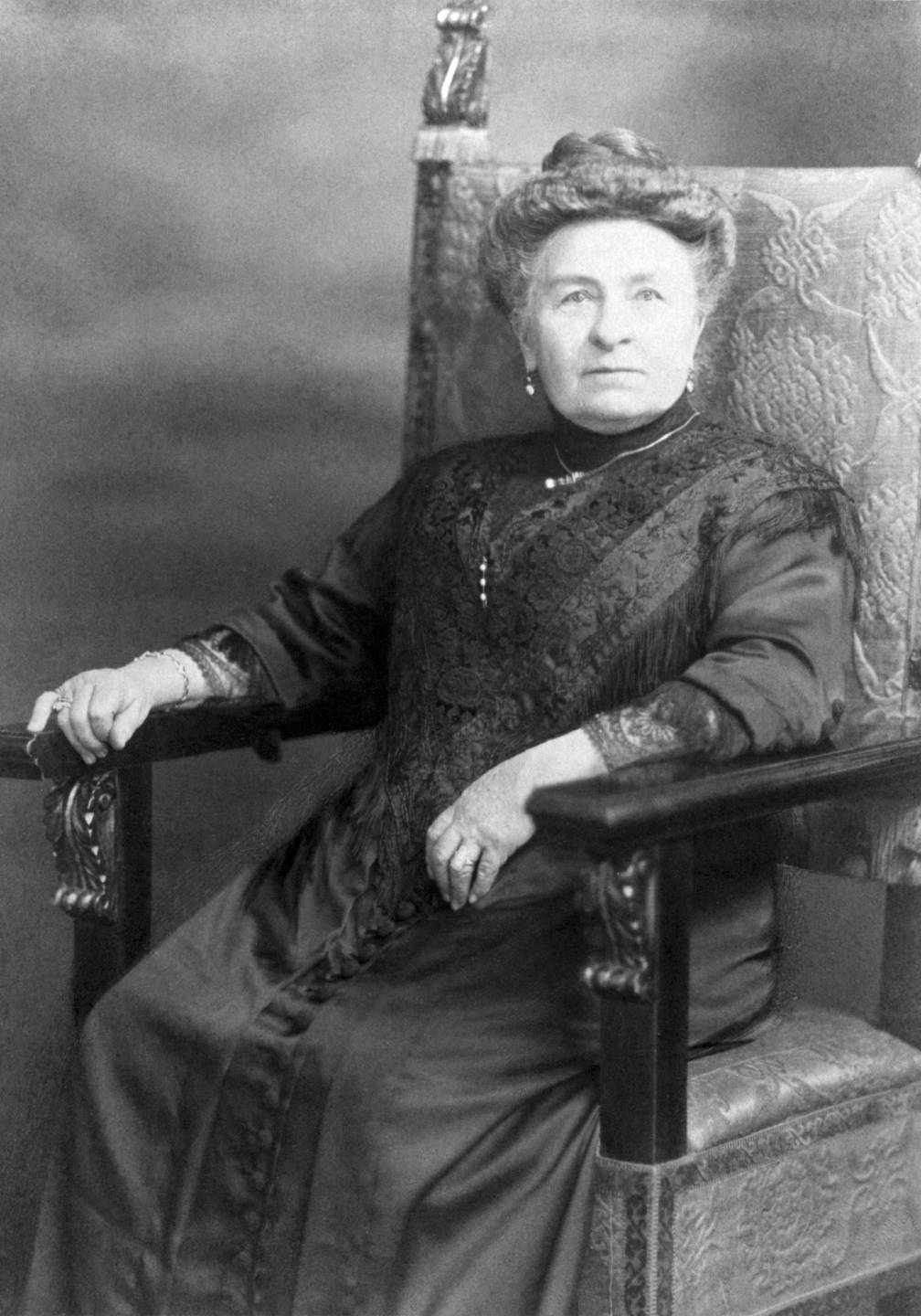 Sophie Marie Opel (née Scheller), German entrepreneur and wife of Adam Opel, 1891 photography by Thomas Heinrich Voigt (1838–1896).